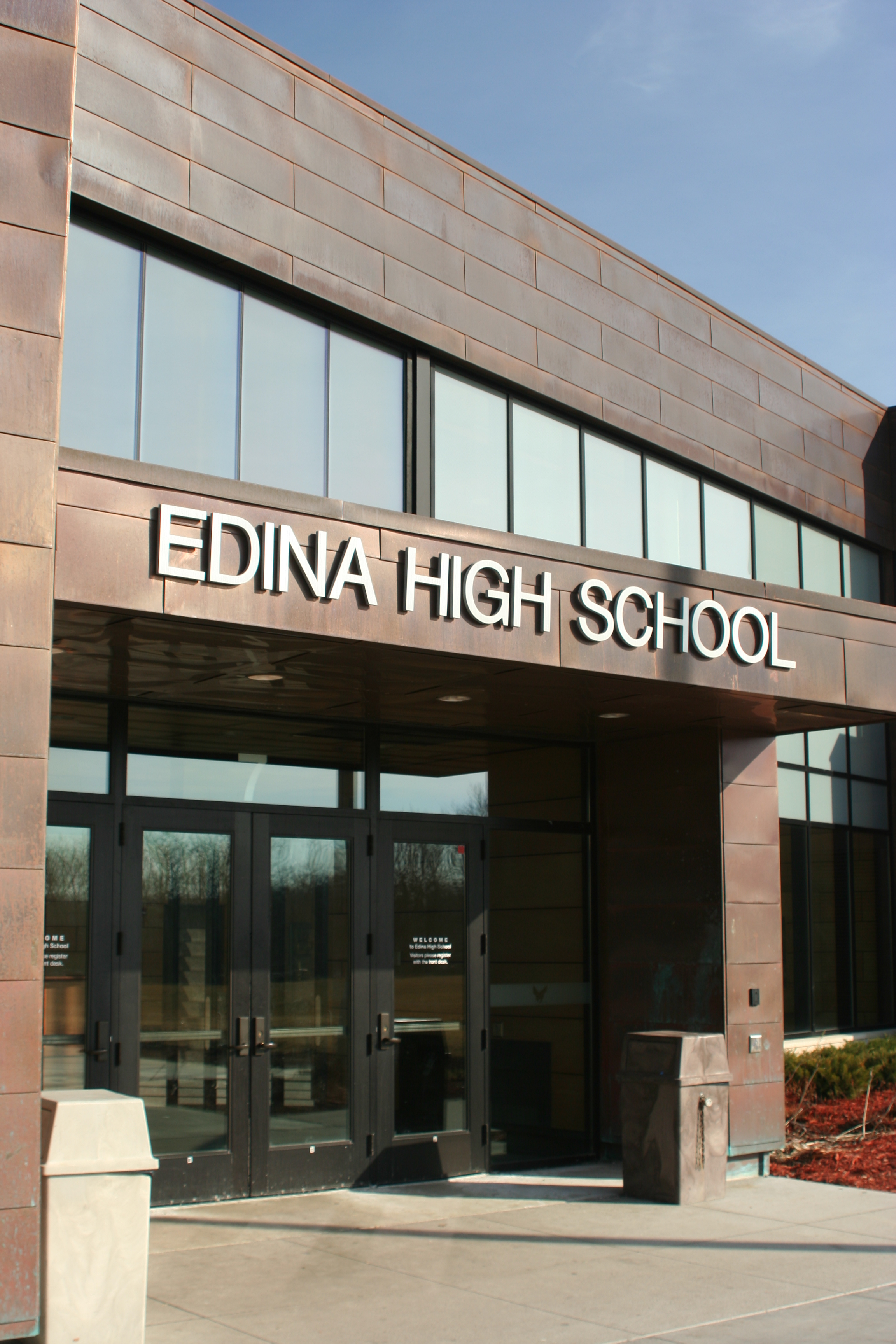 Edina High School Main Entrance in Edina, MN